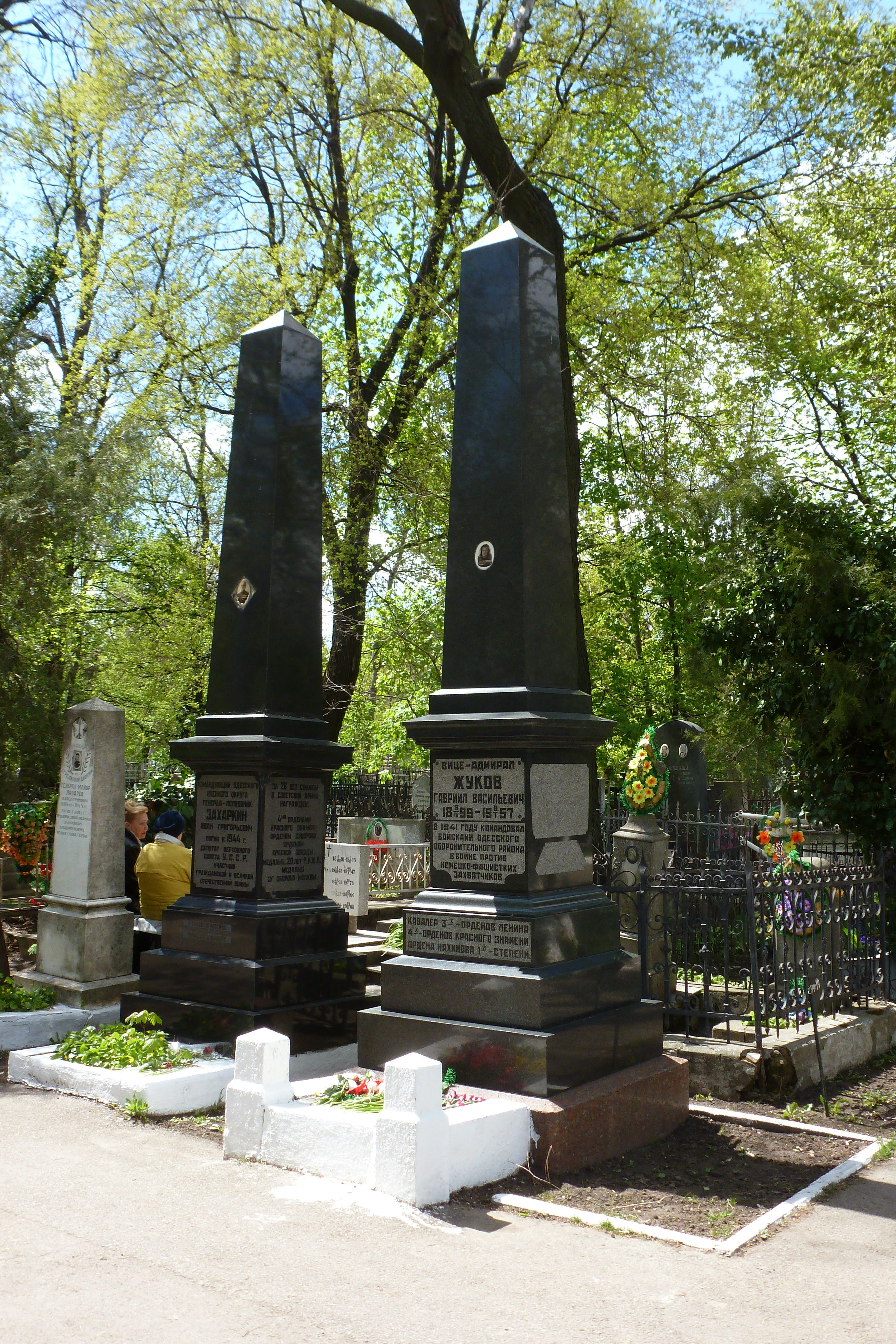 The tombstones of General-Colonel Ivan Zakharkin and Vice-Admiral Gavriil Zhukov. 2nd Christian Cementery in Odessa.